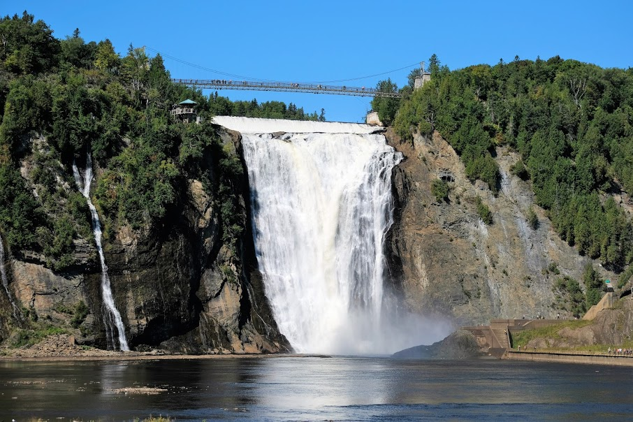 Montmorency Falls, September 2018